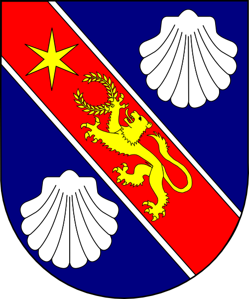 Coat of arms (shield only) of Lorenzo cardinal Nina, Prefect of the Congregation for Studies (1877 - 1878), Cardinal Secretary of State (1878 - 1880), Prefect of the Congregation of the Council (1881–1885).